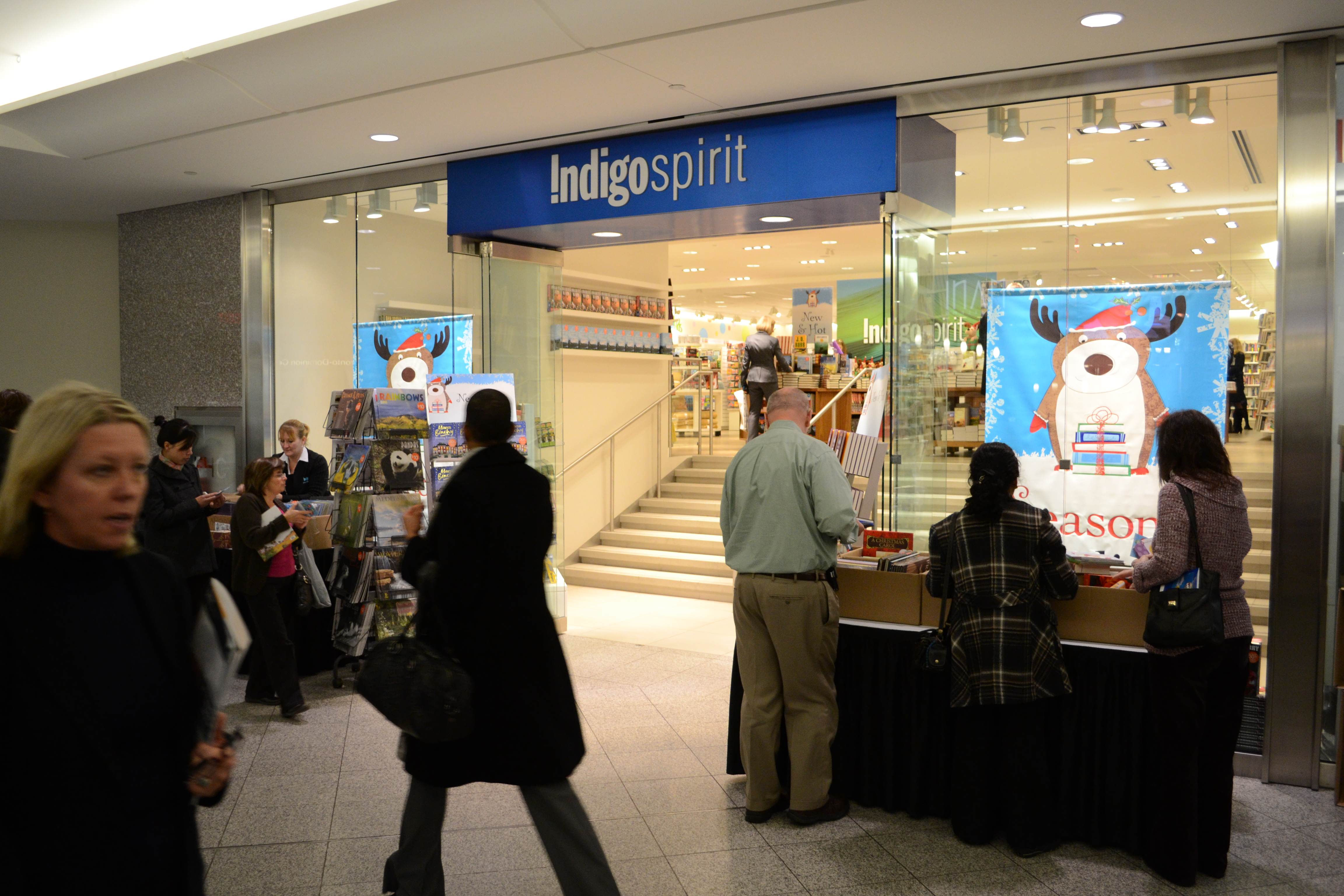 Indigospirit, Royal Bank Plaza